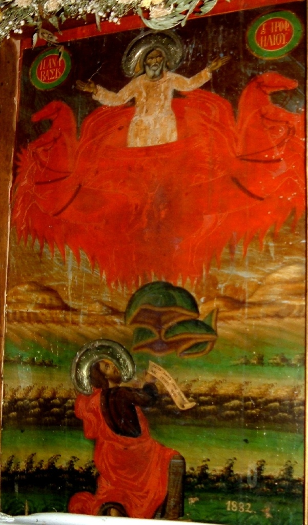 St. Elijah Icon in Melas (Statitsa) Monastery